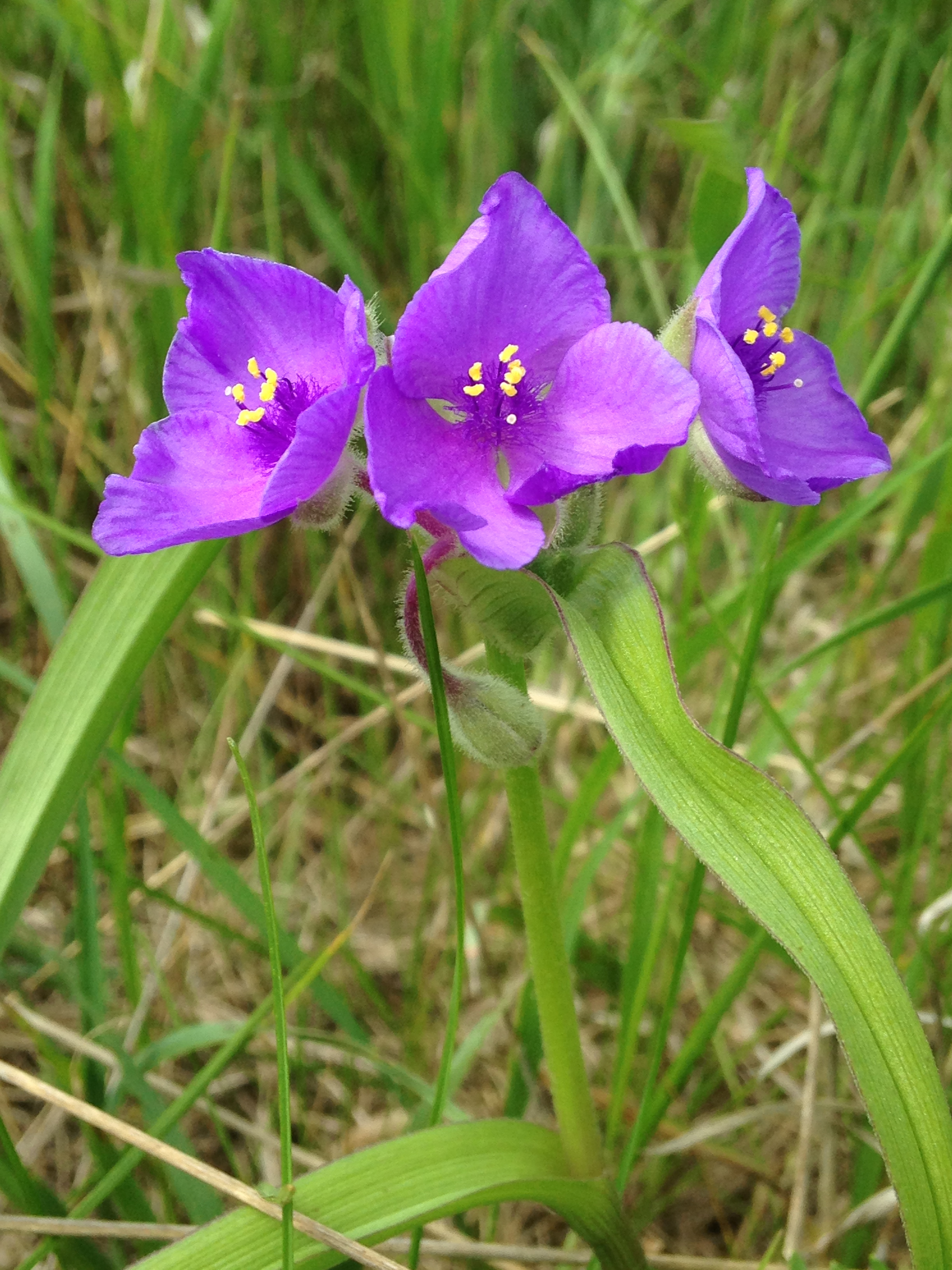 This unique, three-petaled native flower was found on the Hille Waterfowl Production Area in the Kulm Wetland Management District, North Dakota. Photo Credit: Krista Lundgren/USFWS